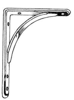 line art drawing